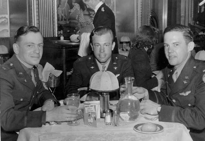 Doolittle Raiders last meal in US